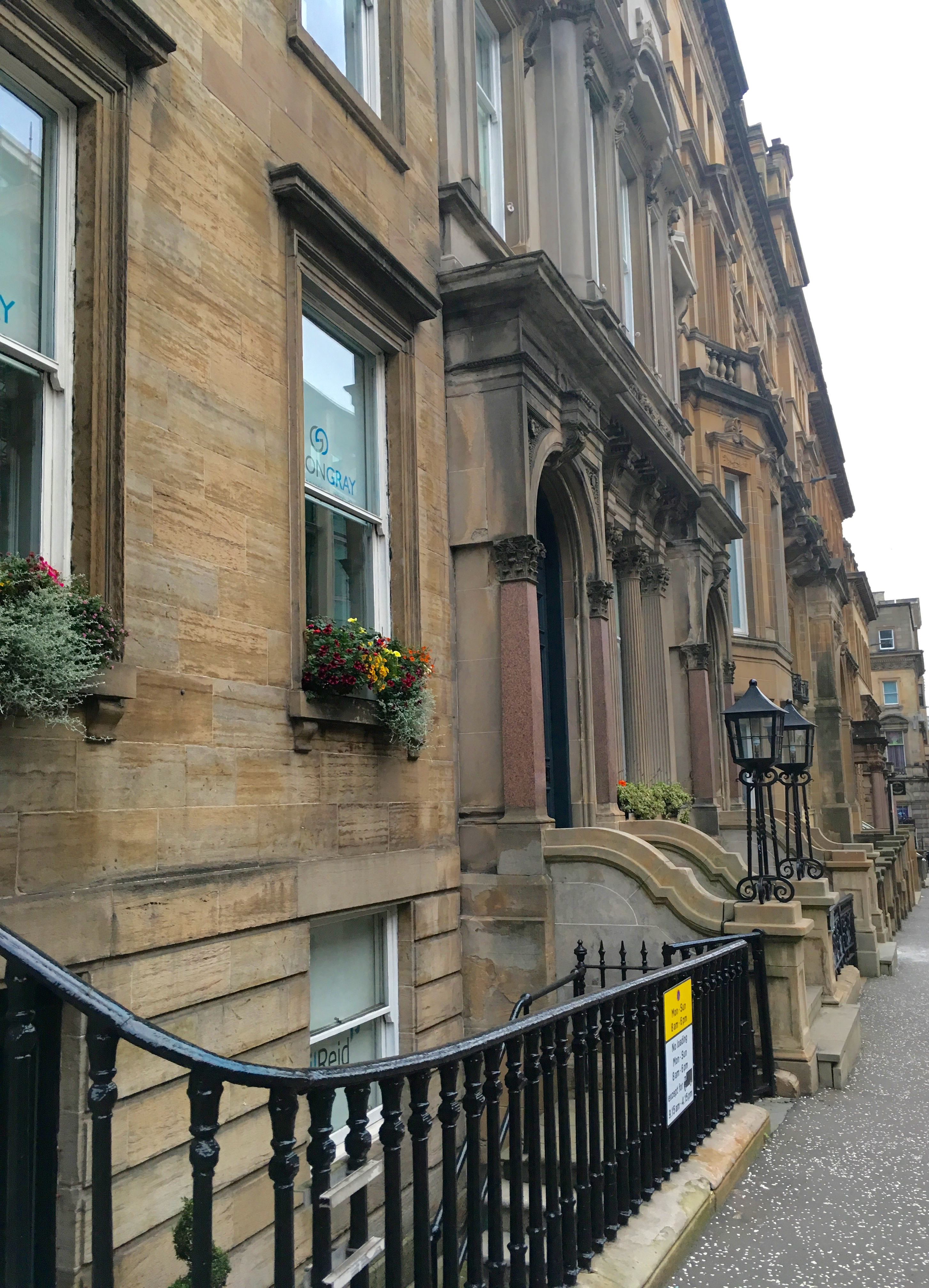 144, 146 West George Street, The New Club Wikidata has entry Q17568684 with data related to this item.